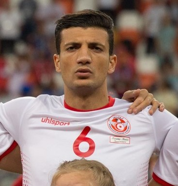 Tunisia national football team